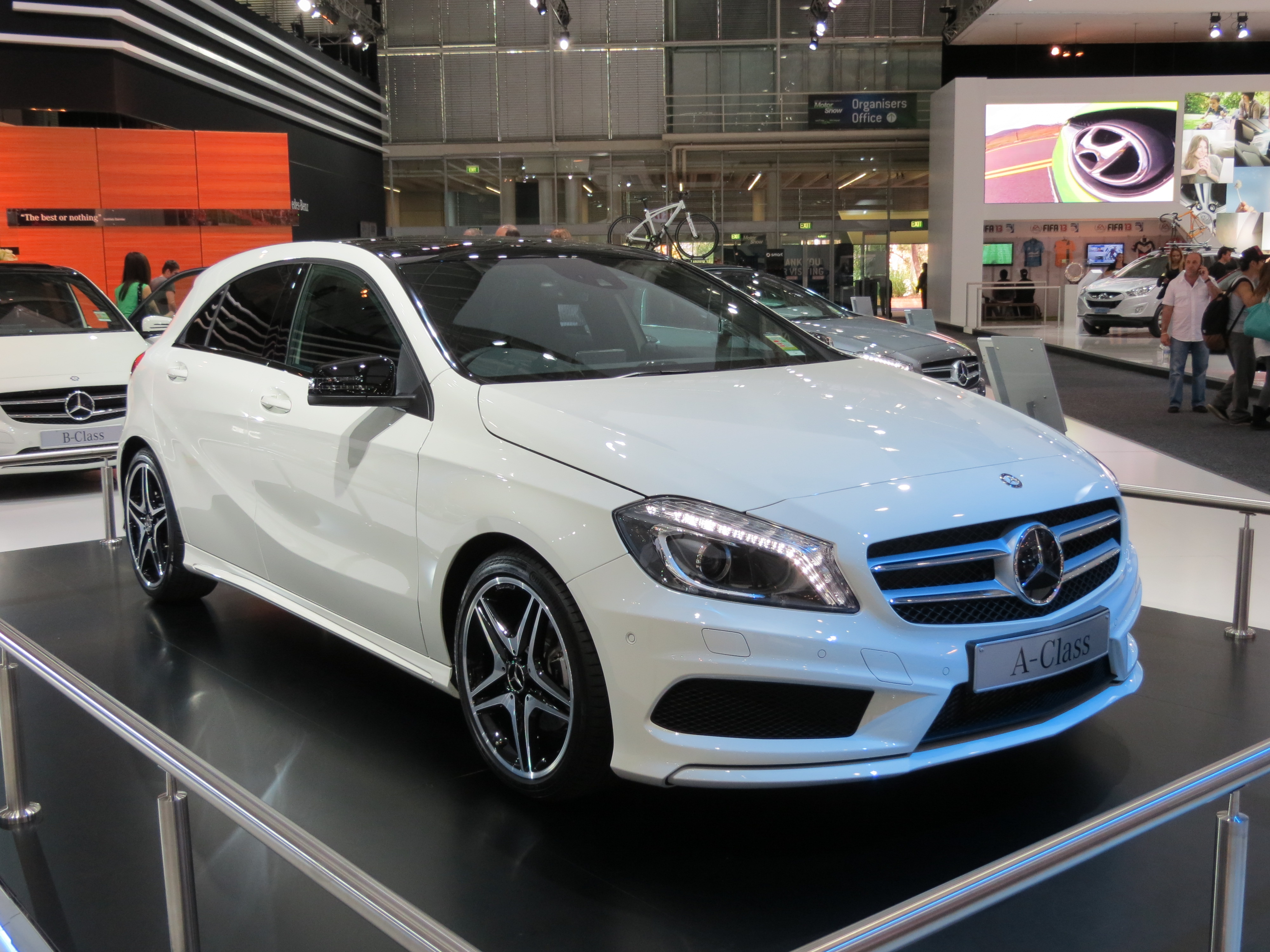 2012 Mercedes-Benz A 200 (W 176) BlueEFFICIENCY hatchback. Photographed at the 2012 Australian International Motor Show, Sydney, New South Wales, Australia.